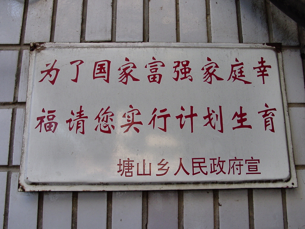 "Please for the sake of your country, use birth control. Sign put up by the government. Found in the entry to the alley slums in Nanchang (Tangshan Village, De'an County, Jiujiang, Jiangxi). These slums are where the pregnant women hide from the government officials enforcing the one child policy.